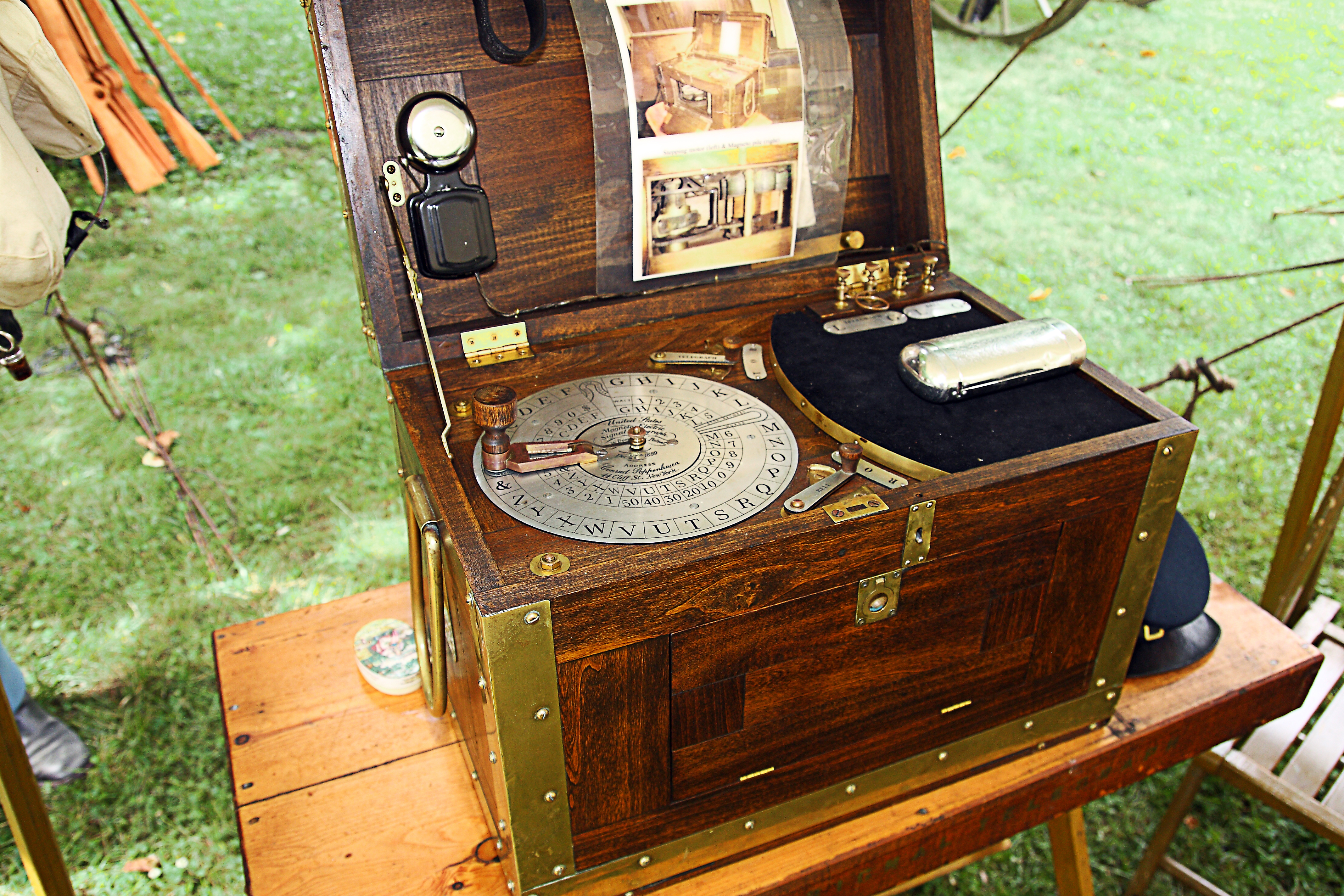 Lew Wallace Study in Crawfordsville,Indiana.